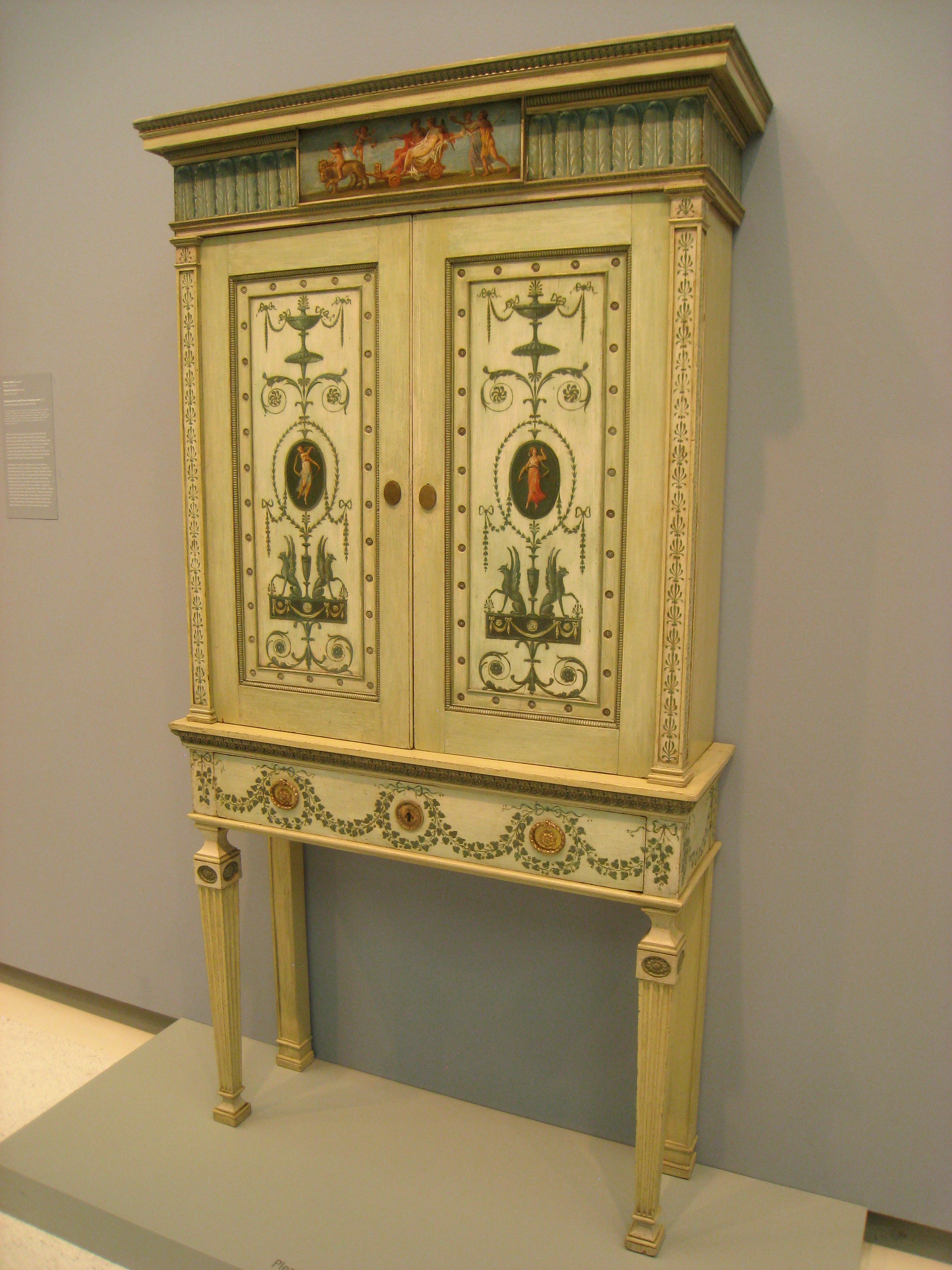 Bookcase, Robert Adam (1728-1792), 1776, exhibited in the Carnegie Museum of Art, Pittsburgh, Pennsylvania, USA.